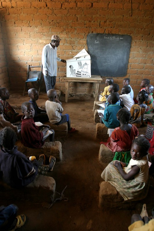 Credits: Pierre Holtz for OCHA - This mission to Sam Ouandja, north-eastern Central African Republic, was undertaken to visit a camp housing almost 3,000 refugees from Darfur, Sudan, as well assessing the security situation in the region.